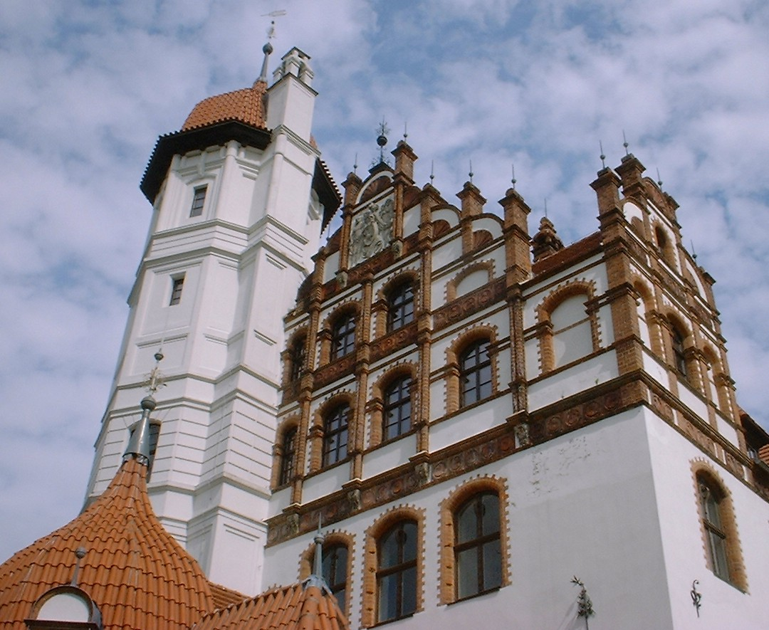 Castle in Basedow in Mecklenburg-Western Pomerania, Germany